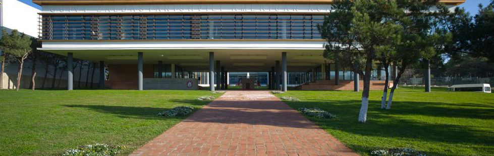 Entrance to the Guivy Zaldastanishvili American Academy in Tbilisi